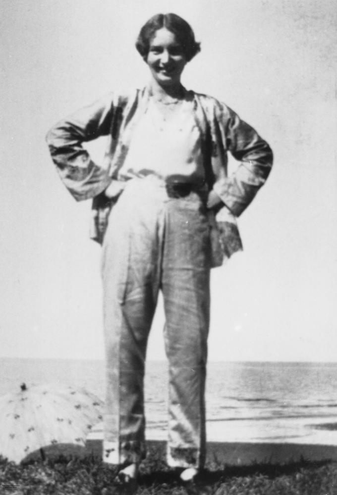 Woman posing at the seaside in her beach pyjamas, 1930-1940 A woman poses at the seaside in her 'beach pyjamas' (soft, baggy pants and jacket) in the 1930s. A beach umbrella can be seen behind her, to the left.